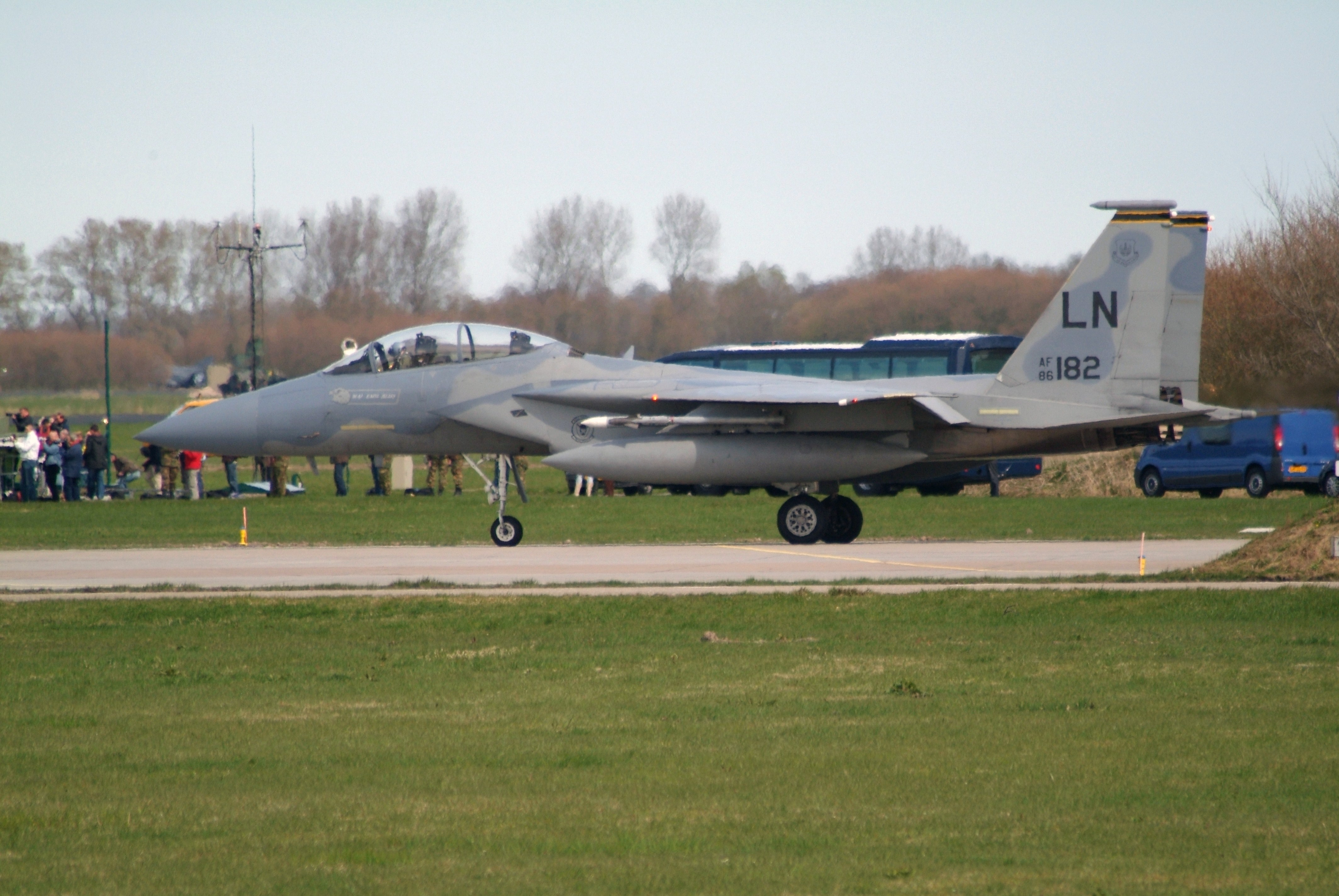 Another empty back seat. (U.S. Air Force F-15D 86-0182 crashed 8 October 2014)